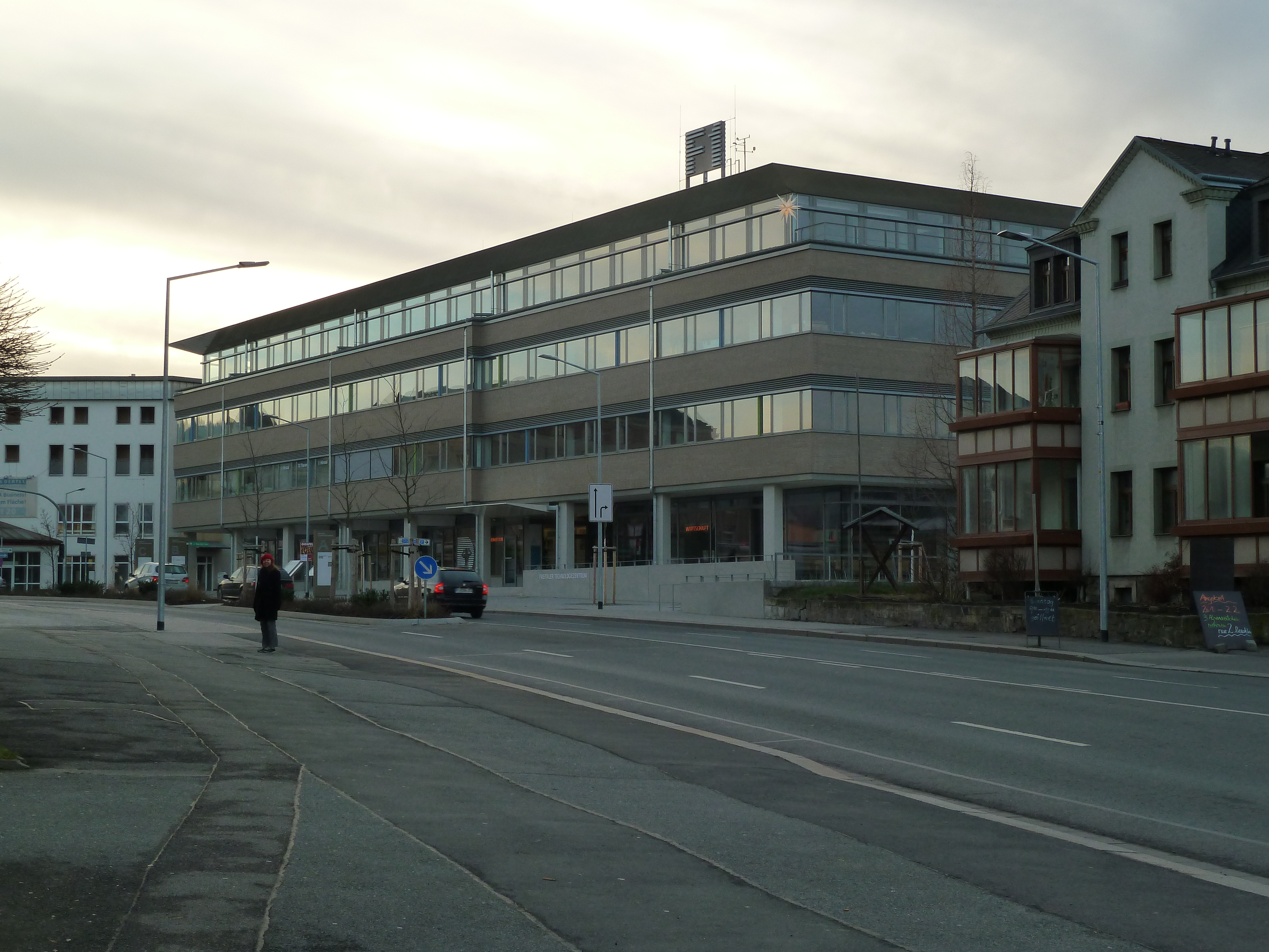 Technology park, established by the City of Freital as business incubator. Under construction in 2013. 1.200 sqm shop floors and 8.800 sqm manufacturing facilities, laboratories and offices. The cost of construction is estimated at 21m €.